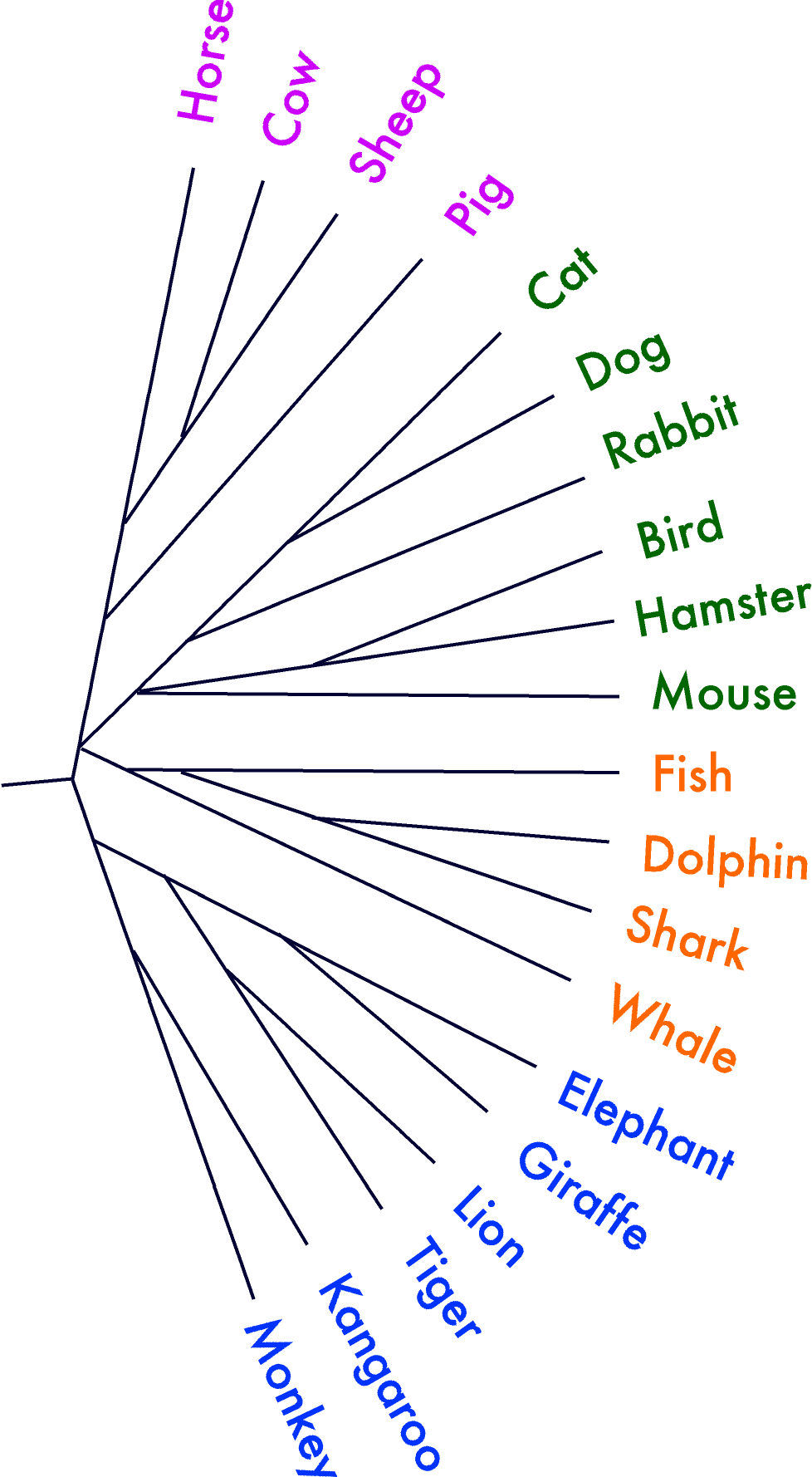 Addtree (Additive Tree) reconstruction of semantic memory organization for the category "animals" using verbal fluency data from children age 7-8 based on Crowe and Prescott (2003)